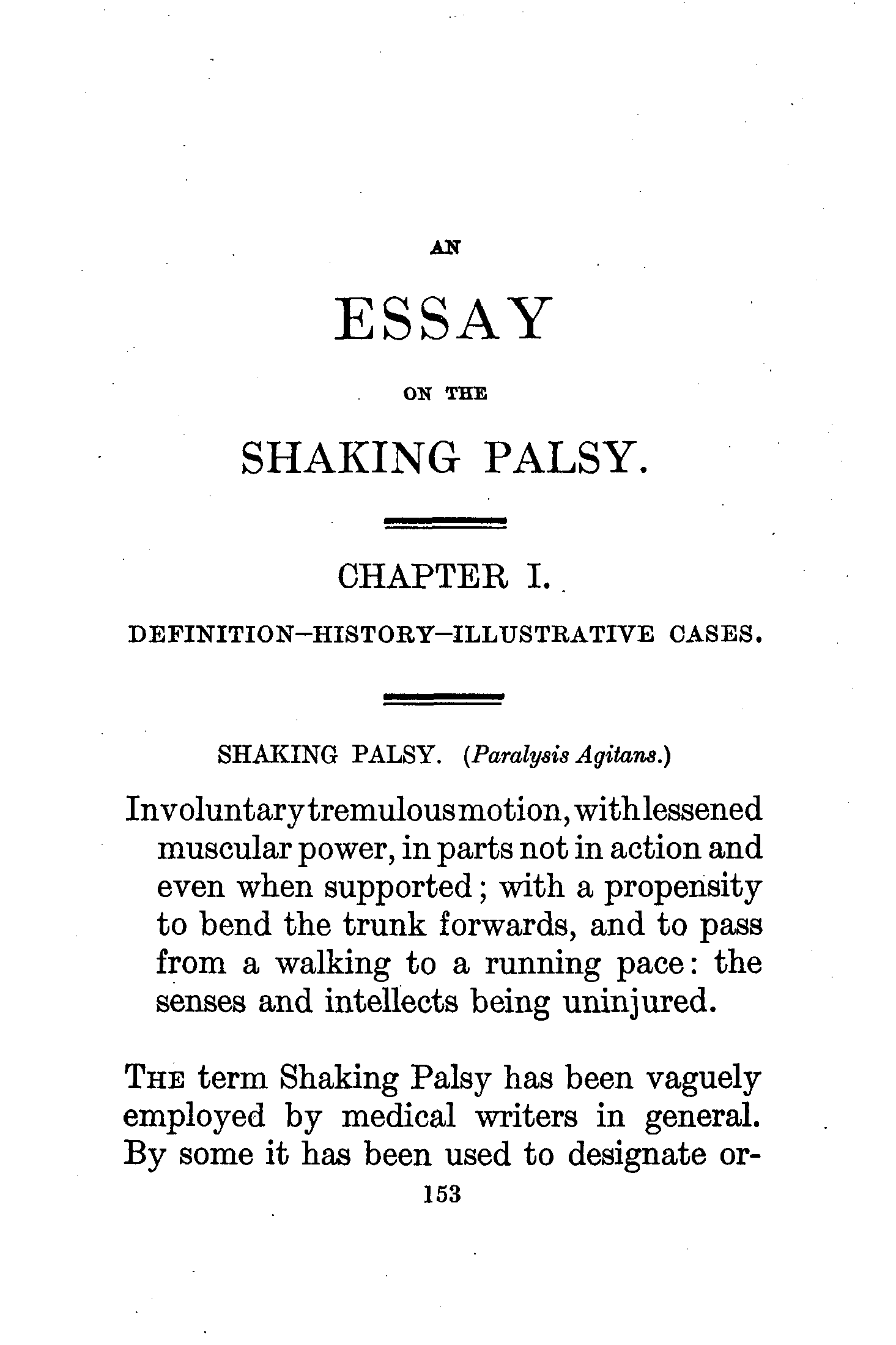 First page of James Parkinson's landmark 1817 work, An Essay on the Shaking Palsy, providing the first description of the disease that would bear his name.